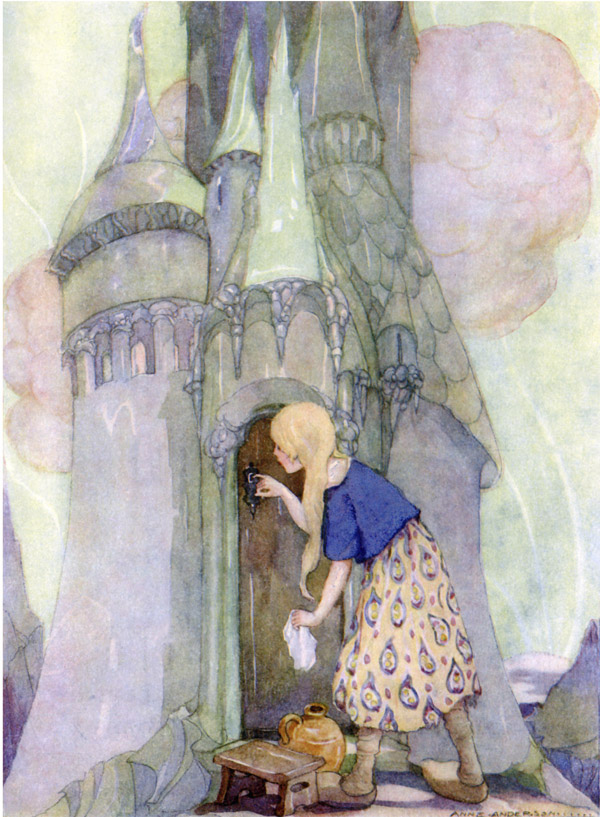 "The Seven Crows" by Anne Anderson. The morning star gave her a bone to open the glass castle...